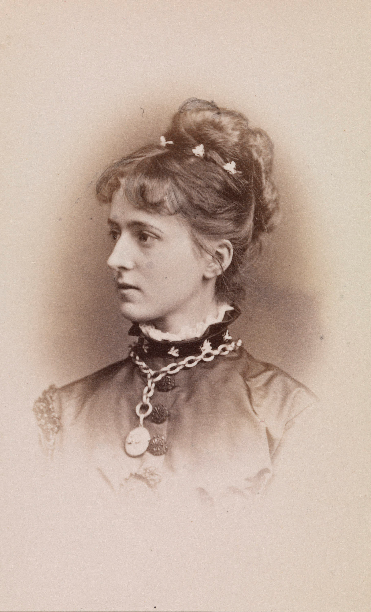 Maria Josepha of Portugal, Duchess of Bavaria, c. 1874